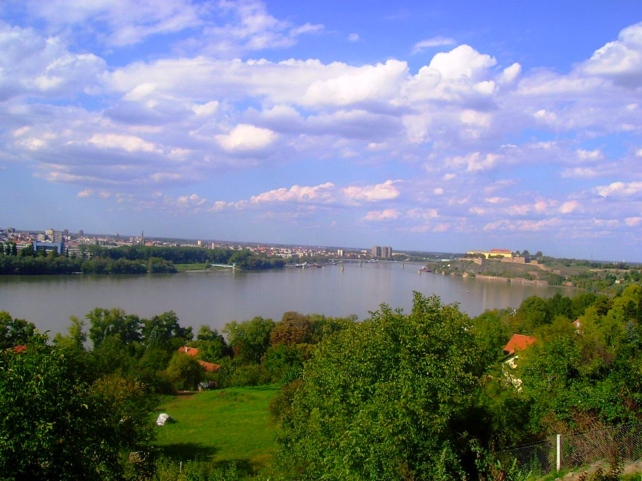 Novi Sad is the capital of the northern Serbian province of Vojvodina, and the administrative centre of the South Bačka District.